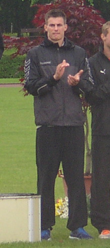 Athlete Paweł Wiesiołek of Poland during victory ceremony in men's decathlon at 7th edition of the TNT Express Meeting (IAAF World Combined Events Challenge Meeting, Sletiště Stadium, Kladno, Czech Republic, 9 June 2013).